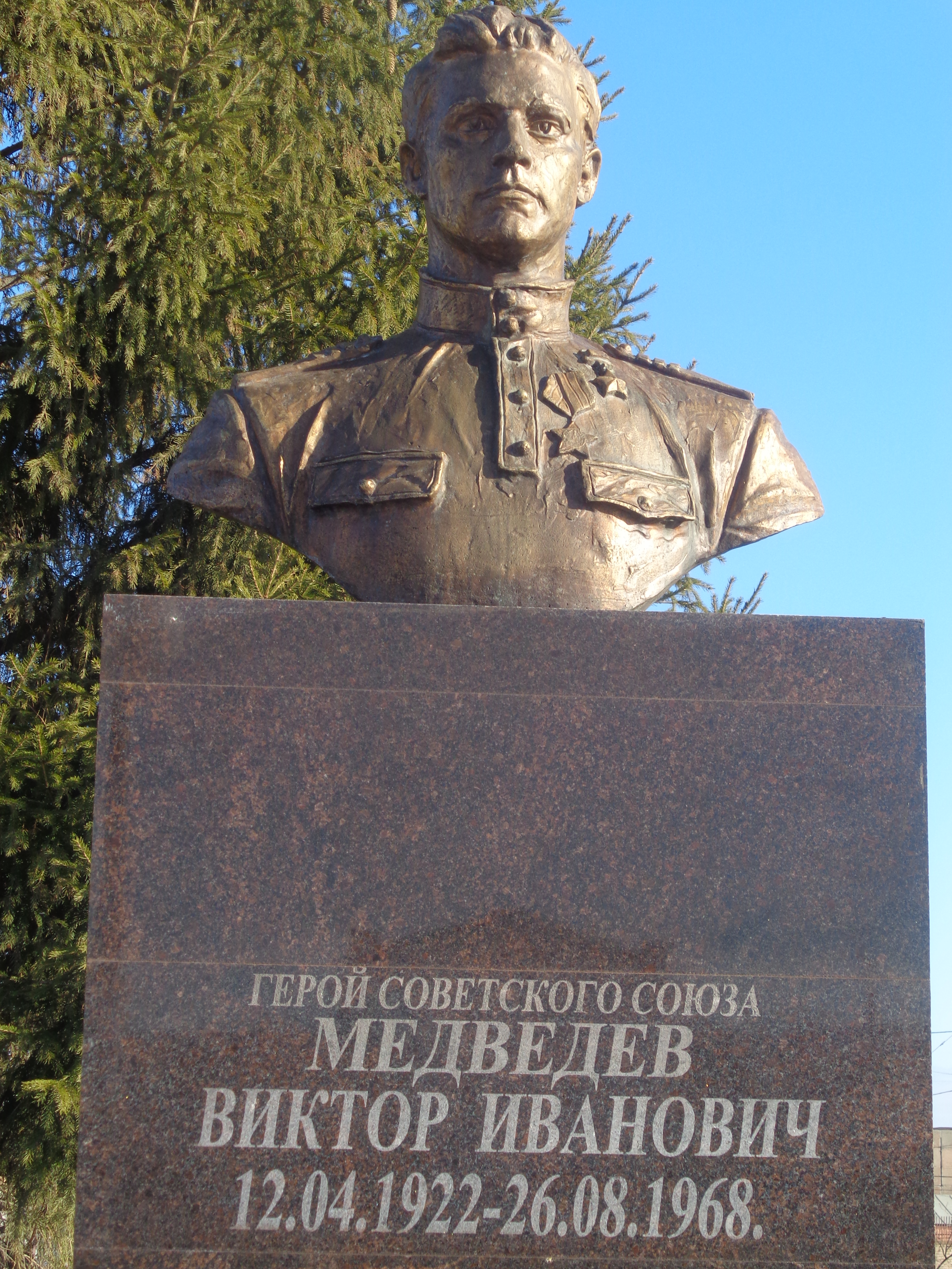 Monument to Hero of the Soviet Union Medvedev Viktor Ivanovich